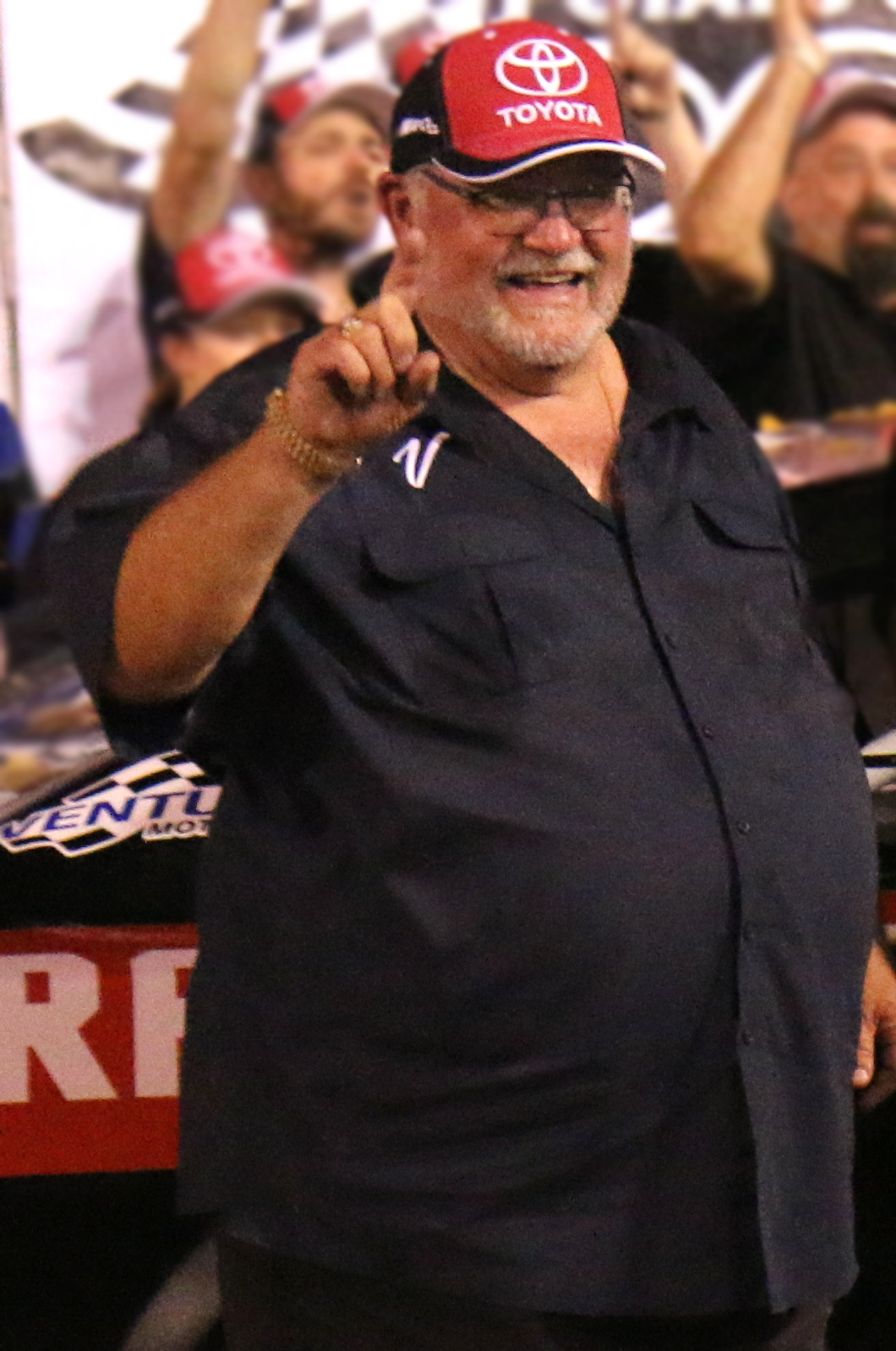 Venturini Motorsports co-owner and former driver Bill Venturini in victory lane after the team won the ARCA race at Madison International Speedway.